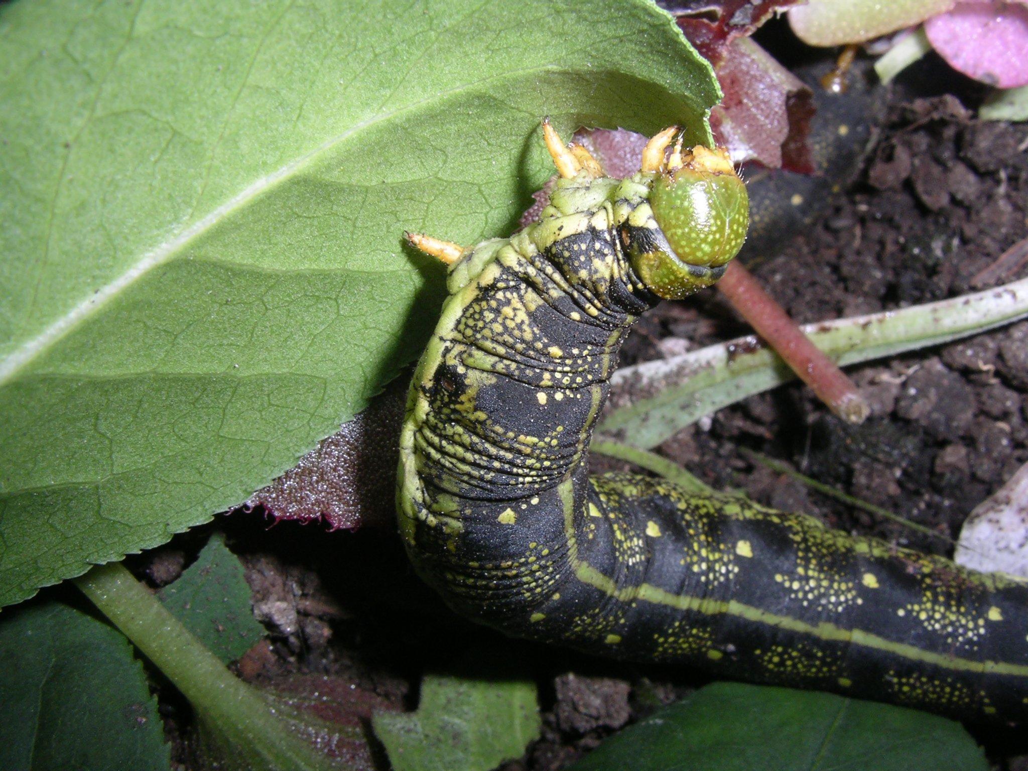 White-lined sphinx (Hyles lineata), late instar larva feeding For more information, check out wiki's page on this sphinx moth.